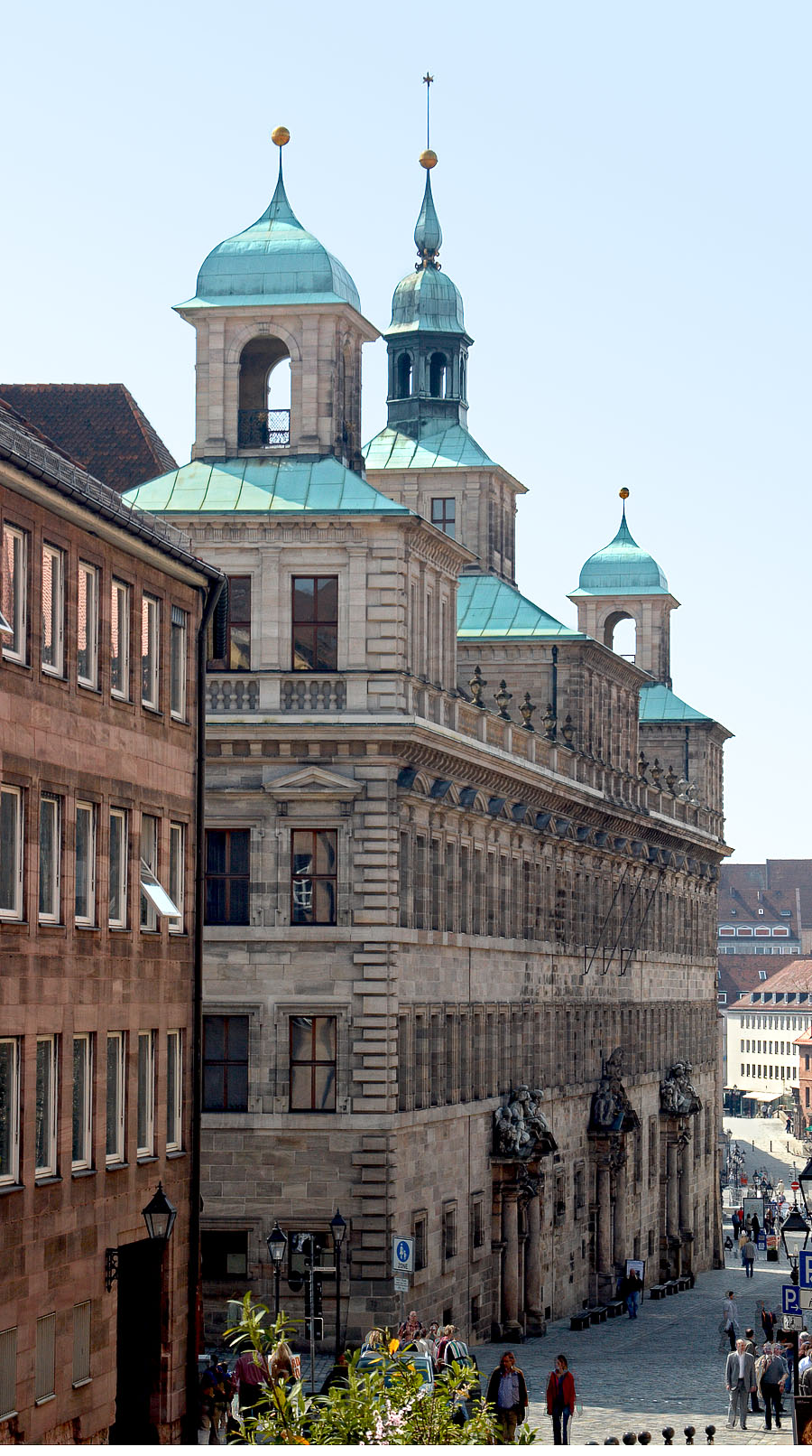 Picture of western facade of the old town hall in Nuremberg from north west.